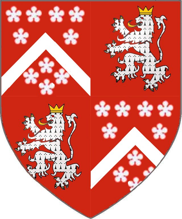 Berkeley quartered with Hamelyn of Wymondham Arms